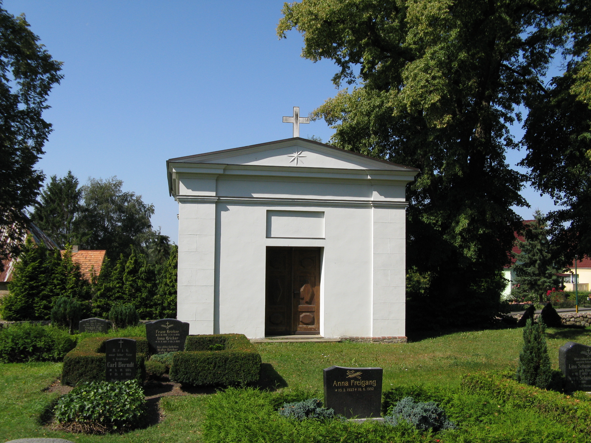 Church in Boddin, disctrict Güstrow, Mecklenburg-Vorpommern, Germany